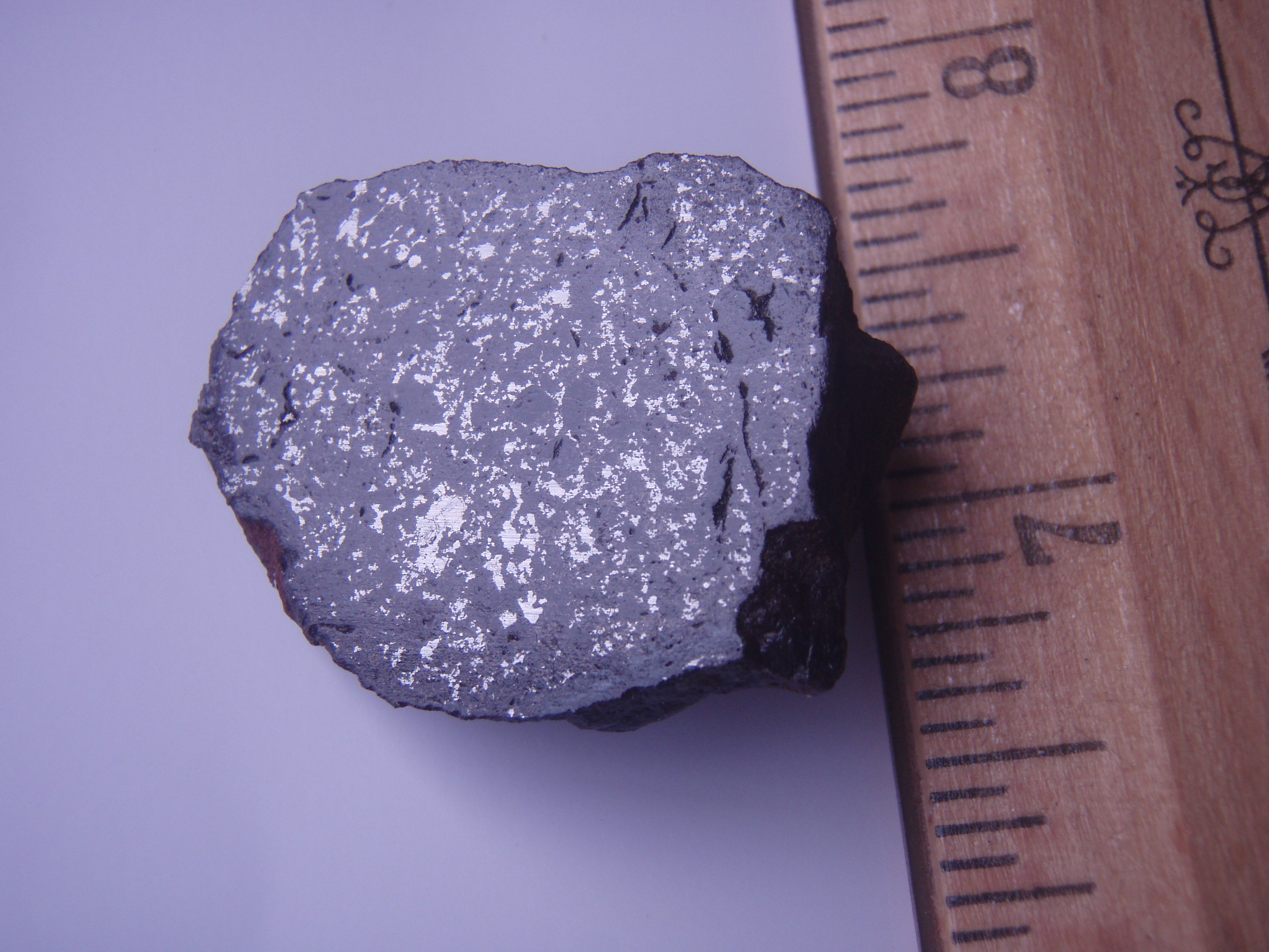 Mesosiderite Meteorite was found in Vaca Muerta, Chile. The image was taken by Brocken Inaglory